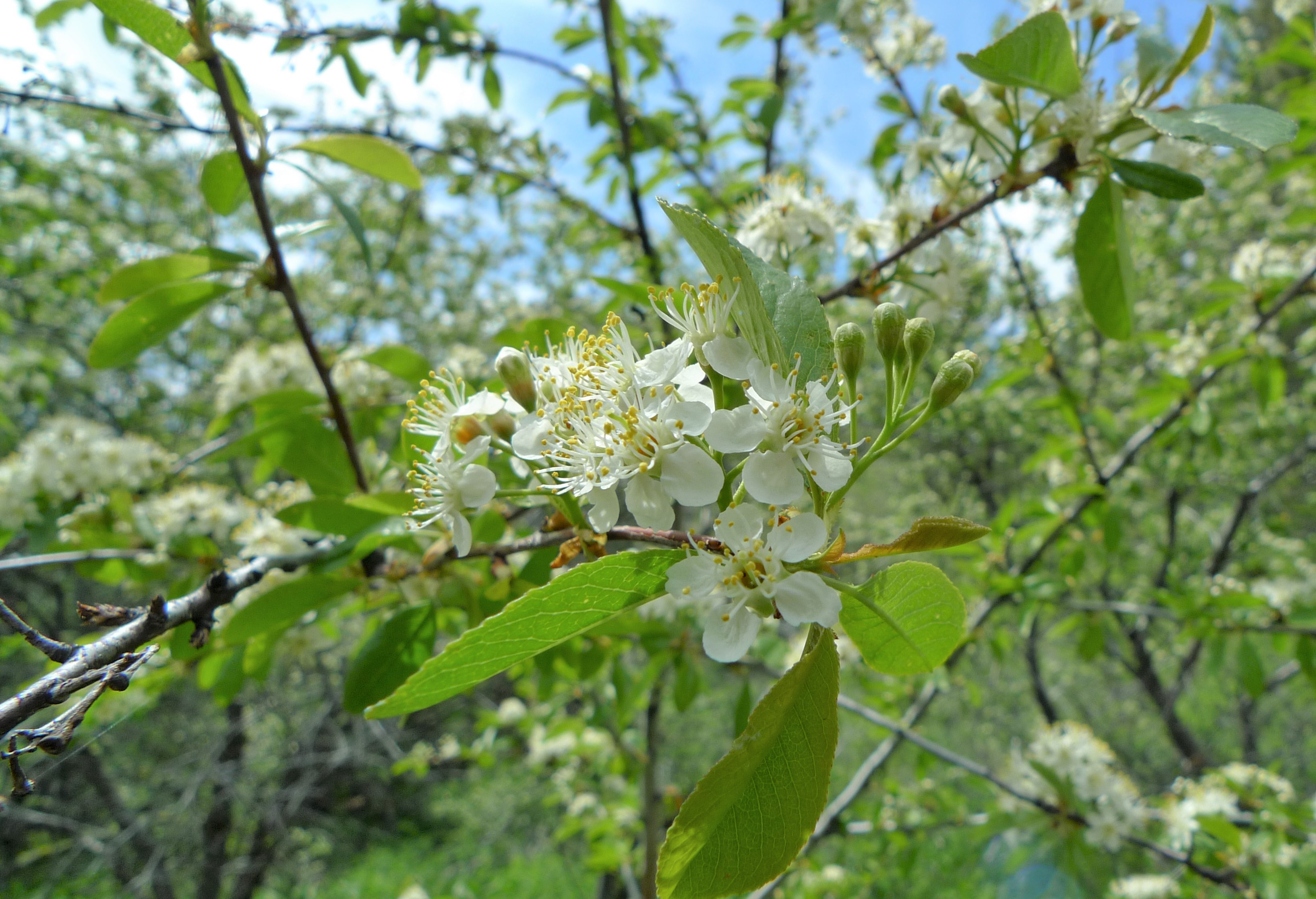 Prunus emarginata flowering in upper Swakane Canyon Chelan County Washington